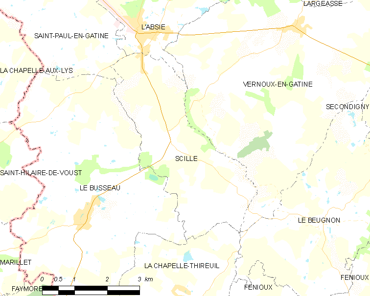 Map of French municipality Scillé